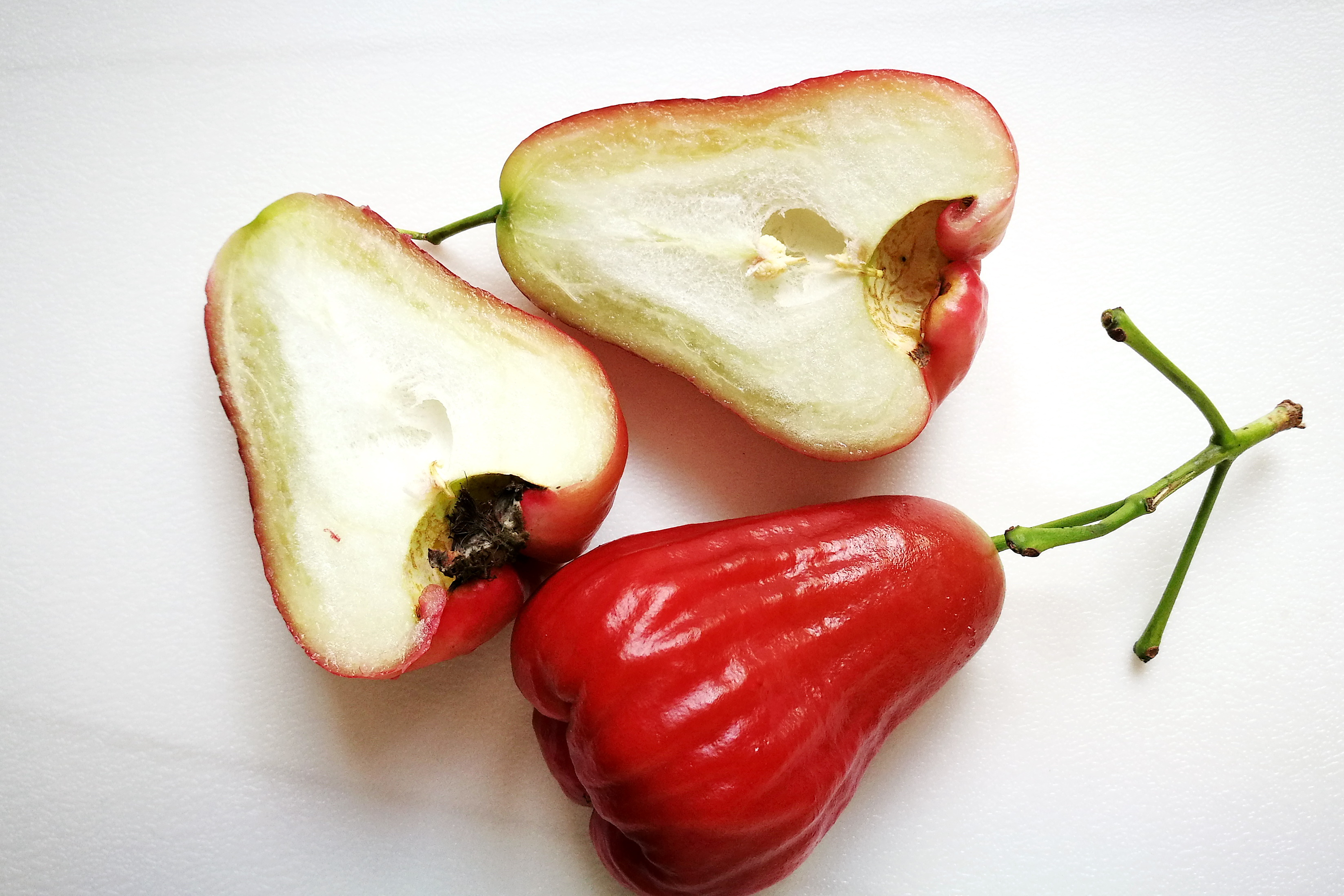 Syzygium samarangense cut in half